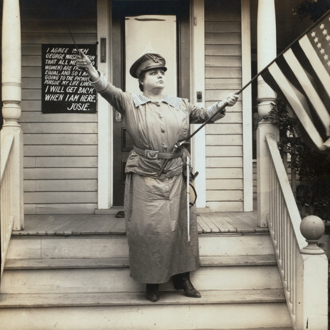 Digital ID: TH-24727 Source: Billy Rose Theatre Collection photograph file / Productions / Josie's Declaration of Independence (cinema 1914) ( Repository: The New York Public Library. The New York Public Library for the Performing Arts. Billy Rose Theatre Division. See more information about and others at Persistent URL: Rights Info: No known copyright restrictions; may be subject to third party rights (for more information